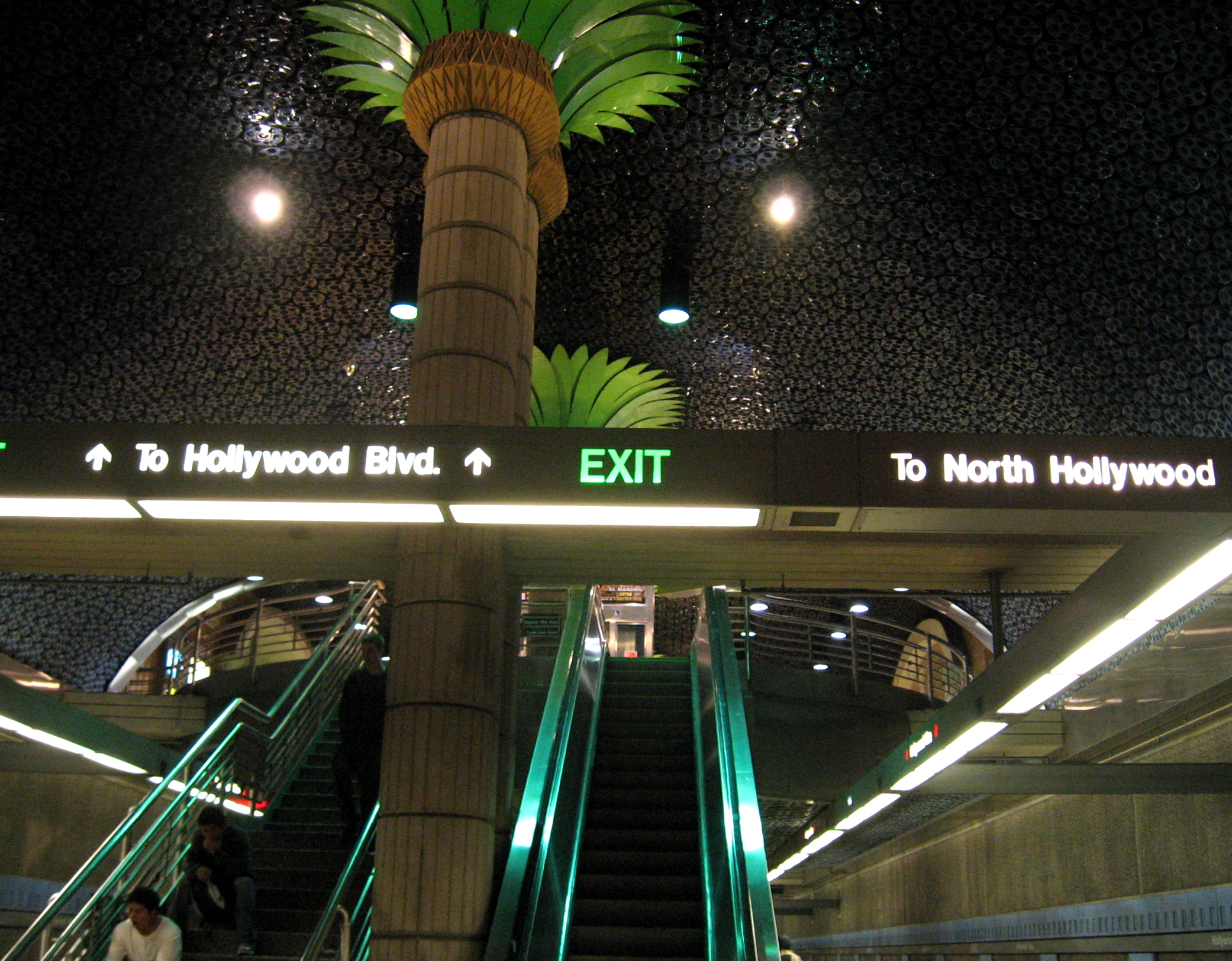 The film-themed Hollywood and Vine subway station on the Red Line has the most elaborate design of any Metro station. The multi-story column references the grand columns of Grauman's Egyptian Theatre on Hollywood Boulevard, the ceiling of the track area is entirely covered with metal film reels, and the blue strips running horizontally along the outer walls resemble movie film. Underground, of course.